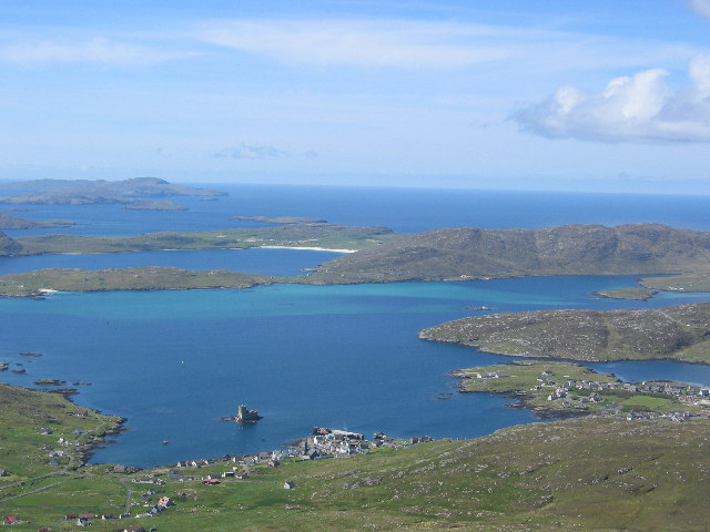 View south from the summit of Heaval From here you can see Castlebay and also over to the islands of Vatersay, Sandray, Pabbay, Mingulay and Barra Head.